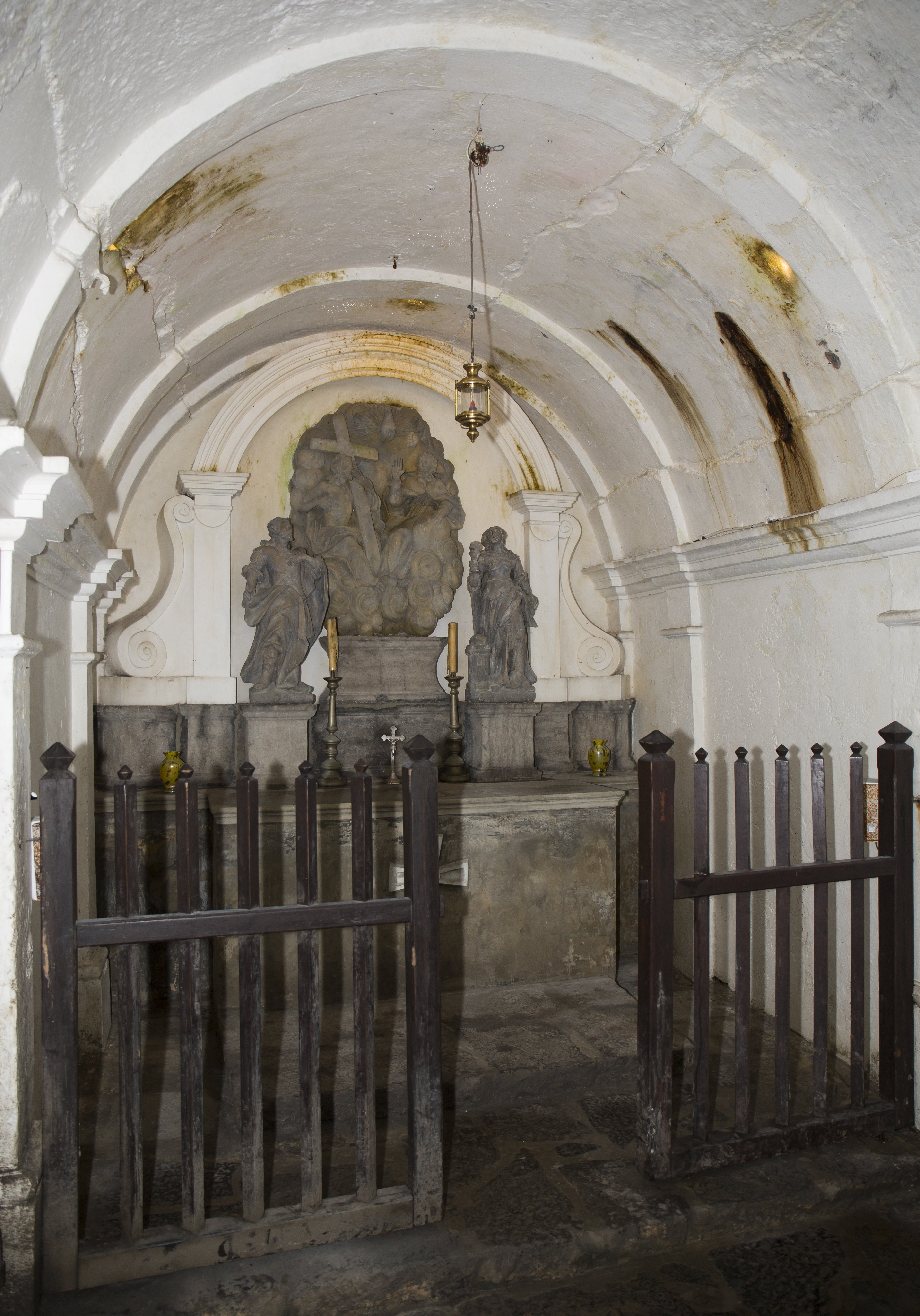 Holy Trinity chapel in the Idrija Mine, Slovenia